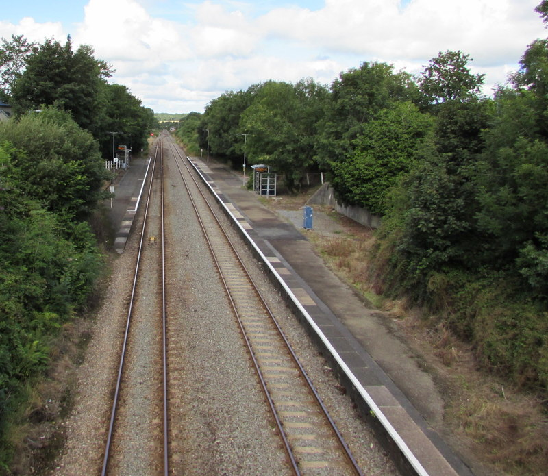 Through Clarbeston Road railway station